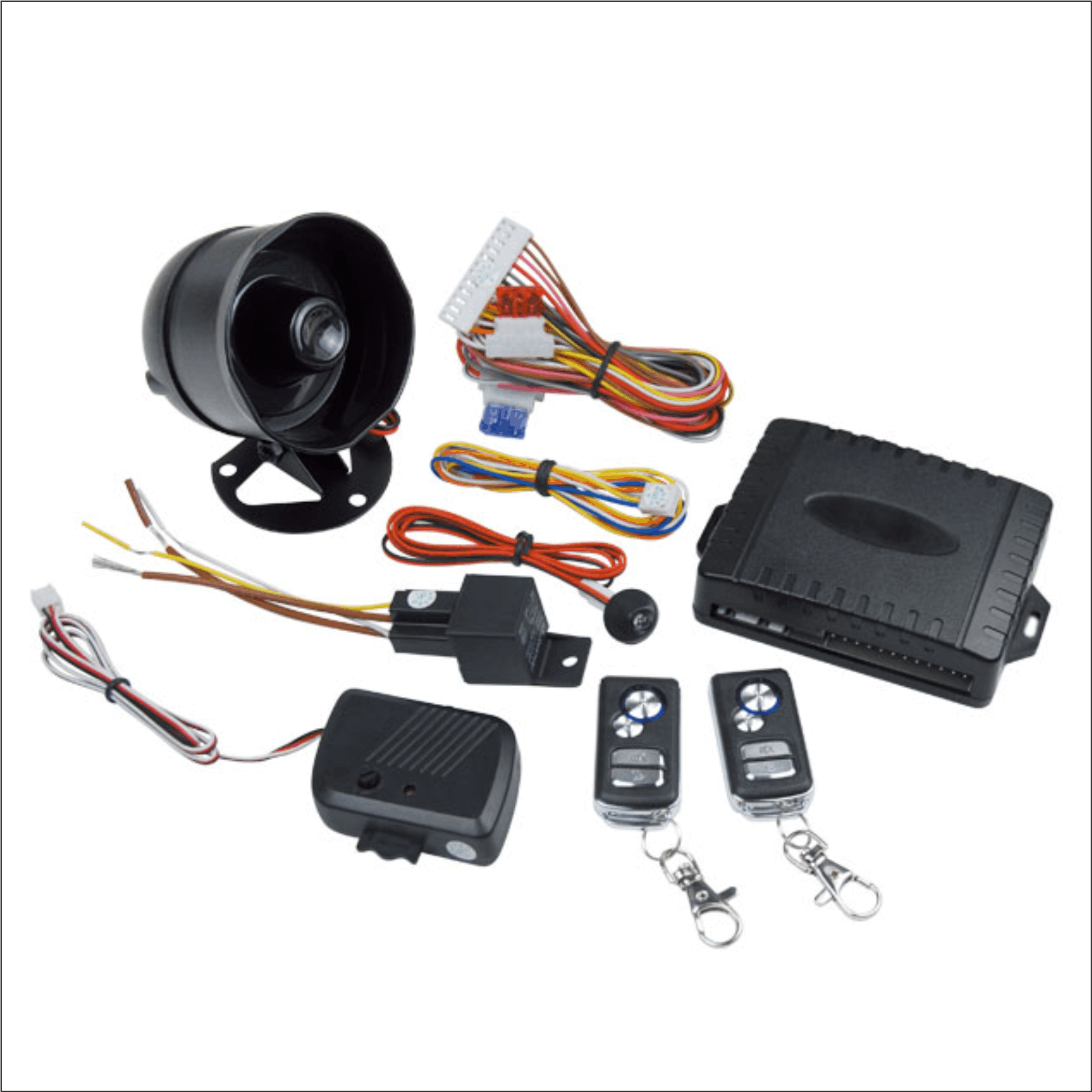 Car alarm components